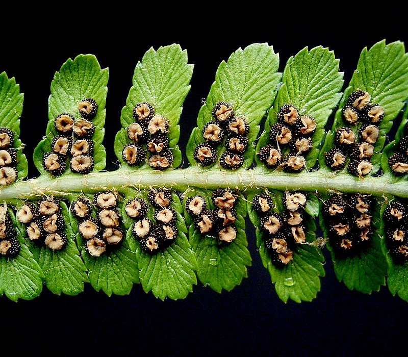 Dryopteris filix-mas